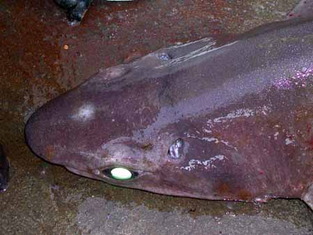 Taiwan gulper shark (Centrophorus niaukang)